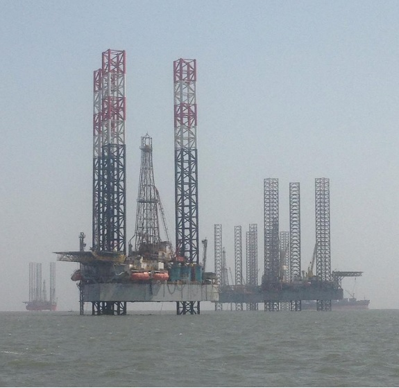 oil platform.